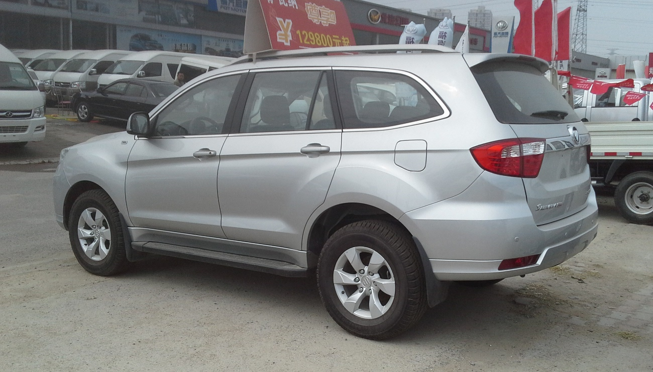 Foton Sauvana photographed in Zhengzhou, Henan province, China.